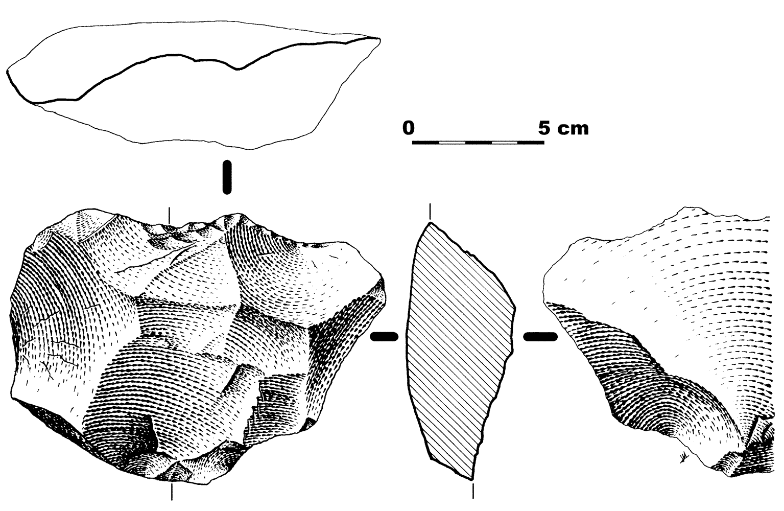 Denticulated tool that comes from an acheulean site on the river terraces of Tormes river, near Salamanca (Spain)